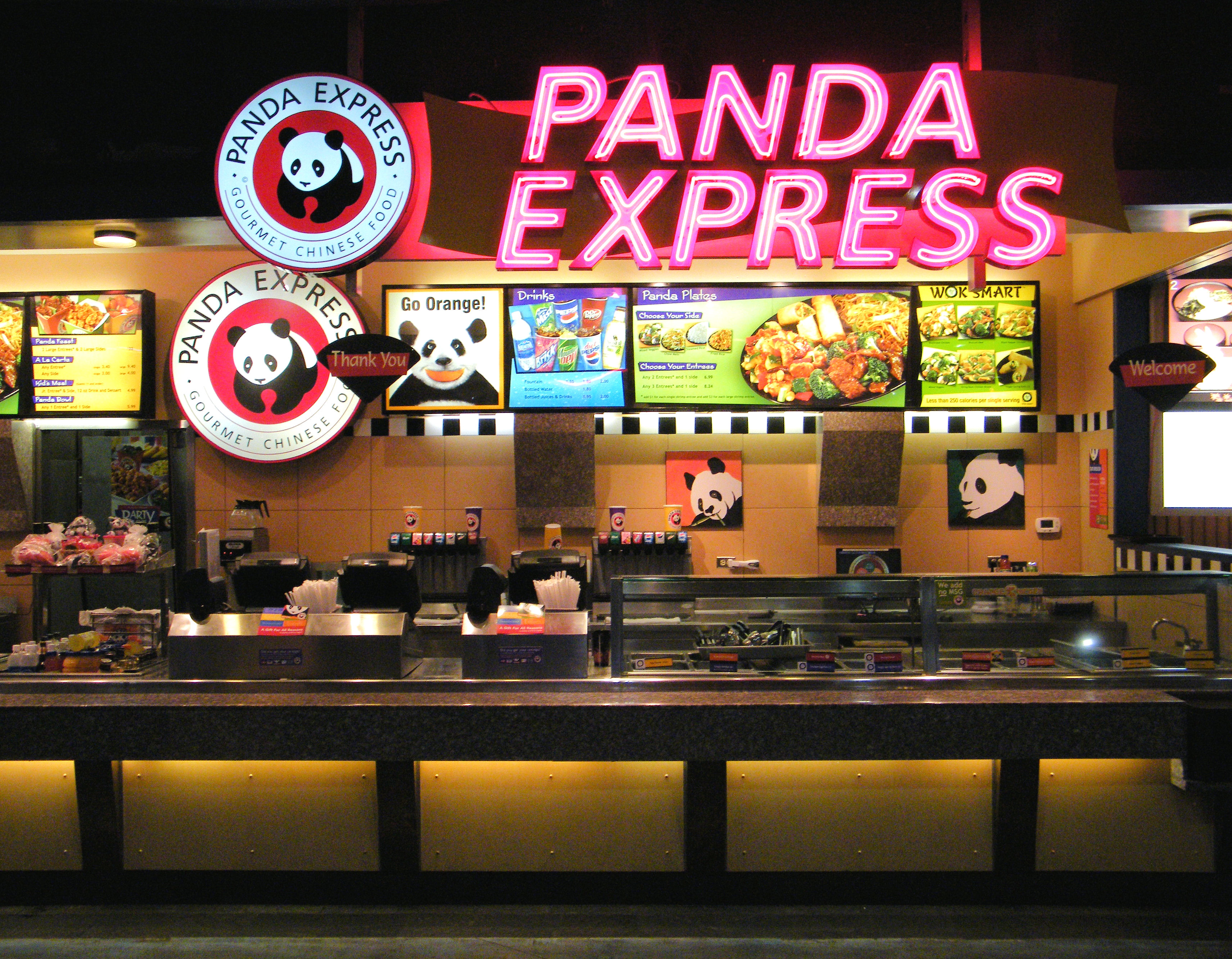 The Panda Express restaurant at Ala Moana Center in Honolulu, Hawaii.